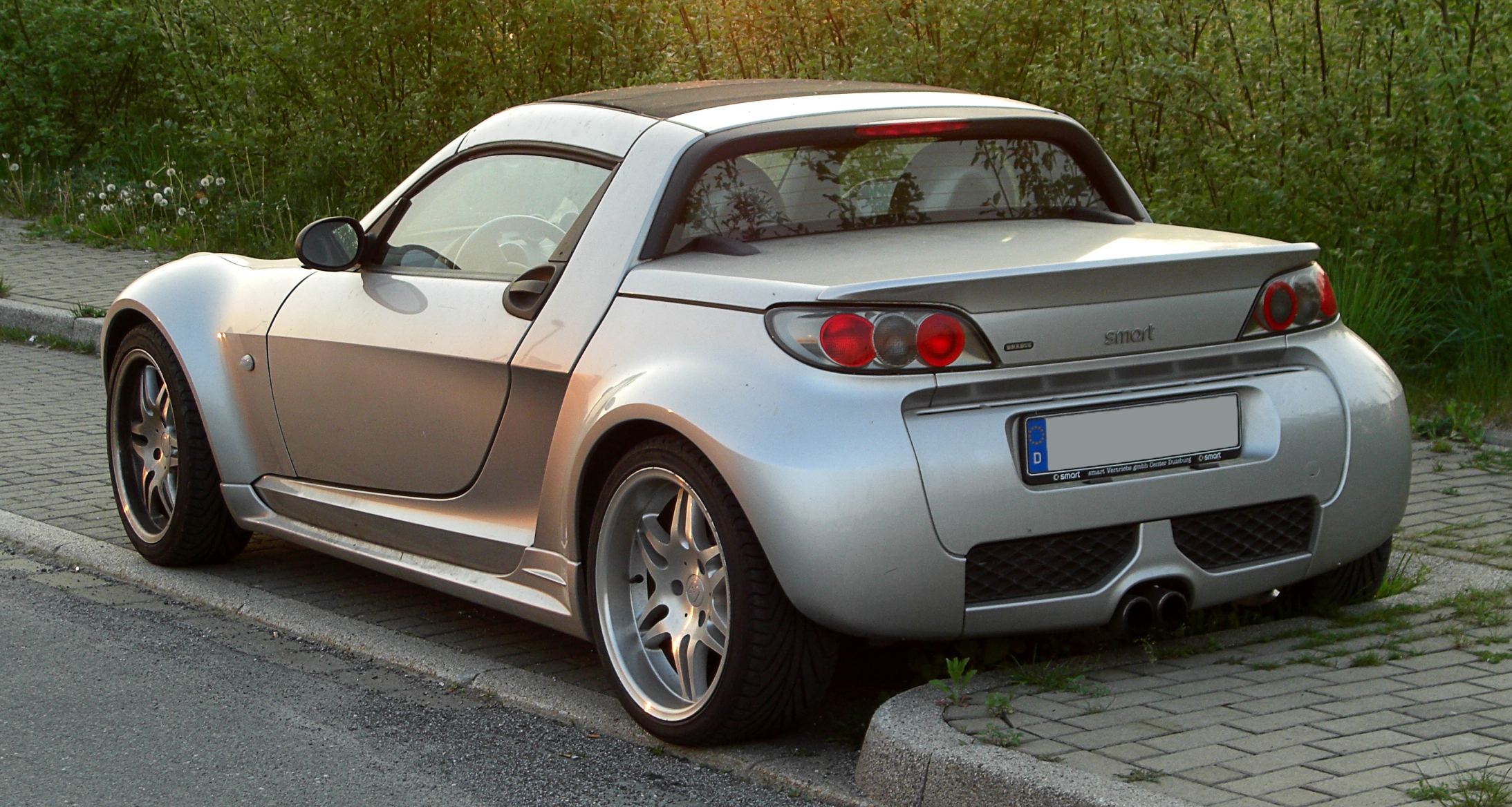 Smart Roadster Brabus